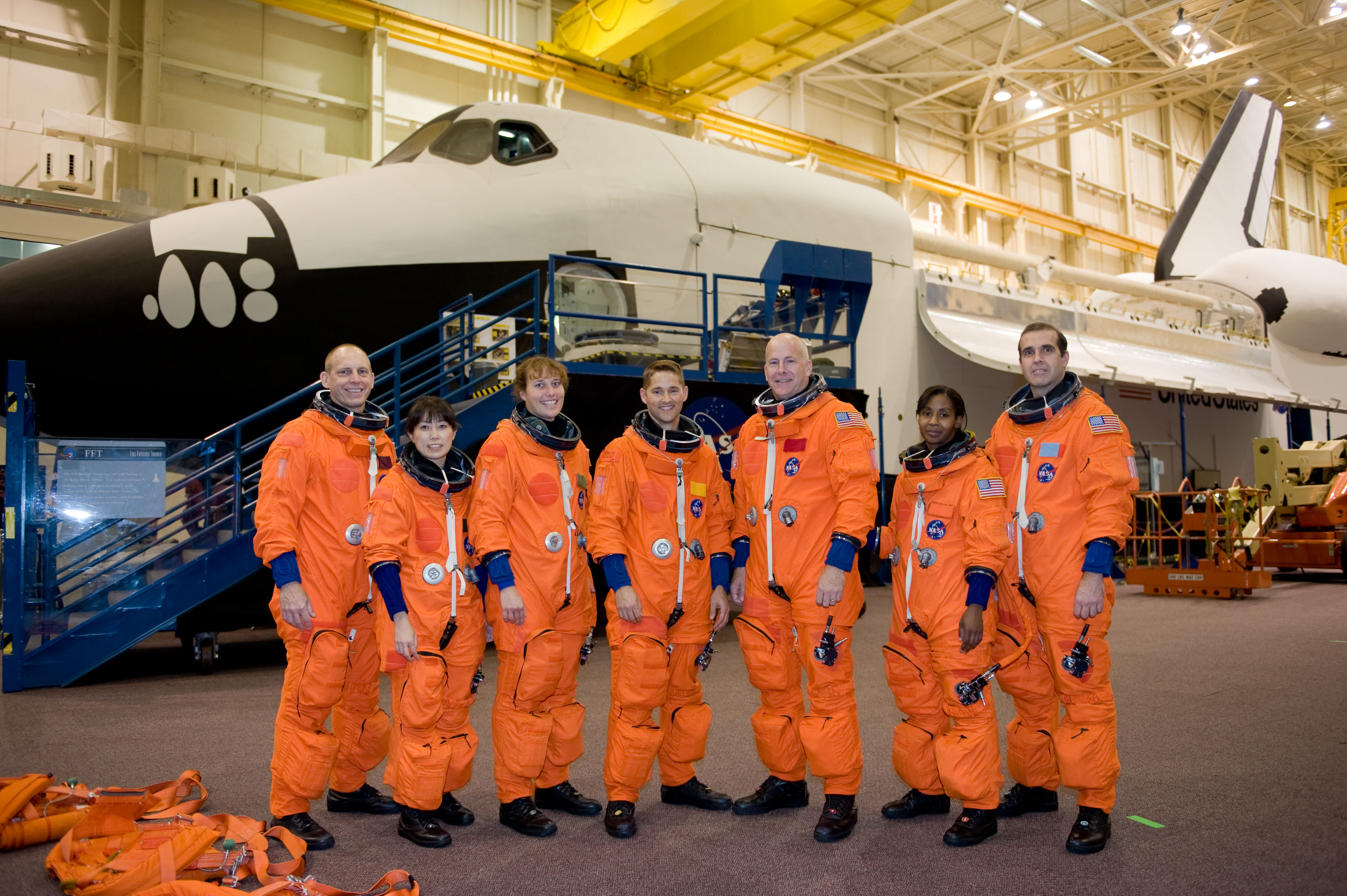 Attired in training versions of their shuttle launch and entry suits, the STS-131 crew members take a brief break for a portrait in the Space Vehicle Mock-up Facility at NASA's Johnson Space Center. From the left are NASA astronaut Clay Anderson, Japan Aerospace Exploration Agency (JAXA) astronaut Naoko Yamazaki, NASA astronaut Dorothy Metcalf-Lindenburger, all mission specialists; NASA astronauts James P. Dutton Jr., pilot; Alan Poindexter, commander; Stephanie Wilson and Rick Mastracchio, both mission specialists.